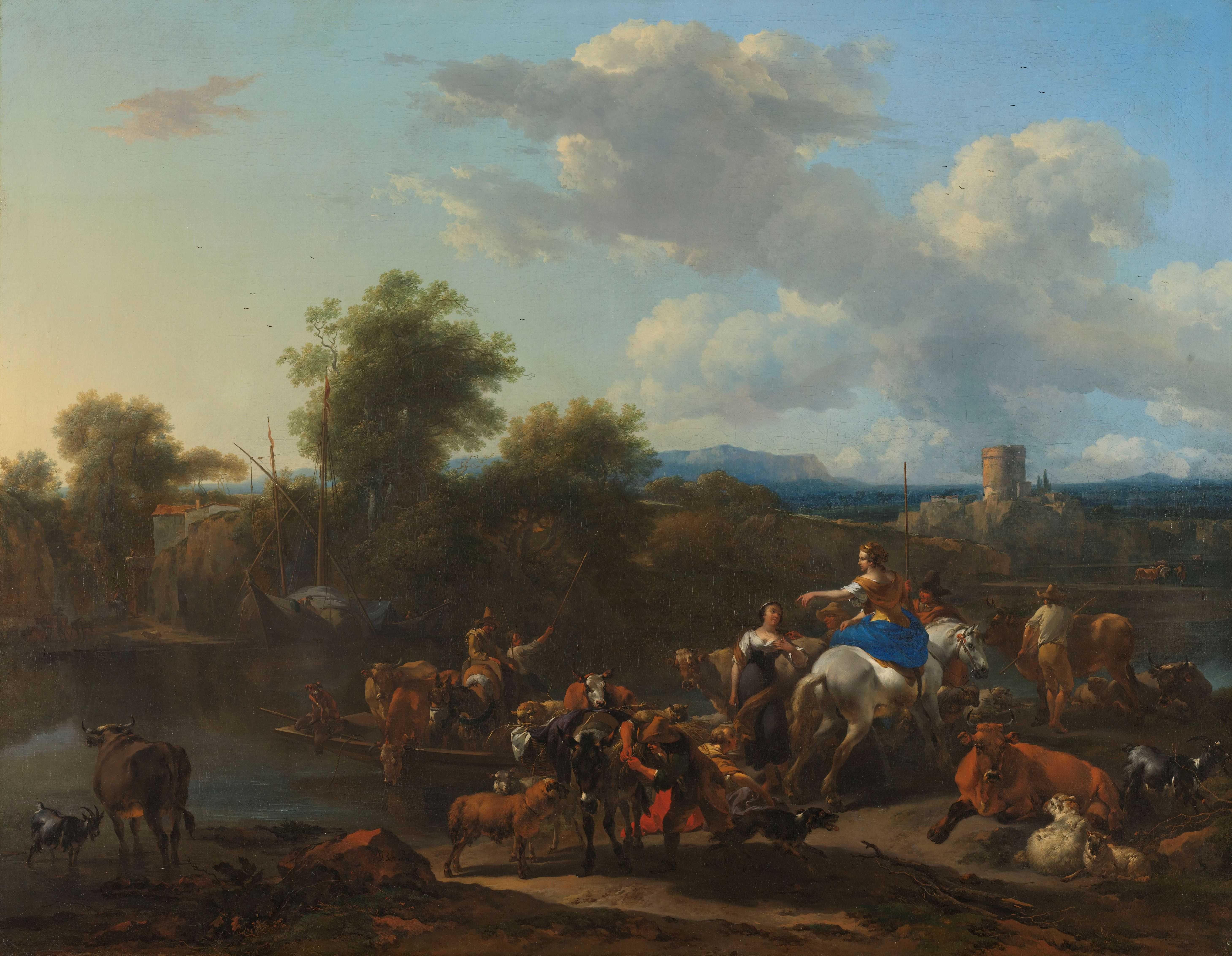 The cattle ferry. On the foreground herders with their cattles of cows and sheep including a woman on horseback are waiting for a ferry to cross the river.